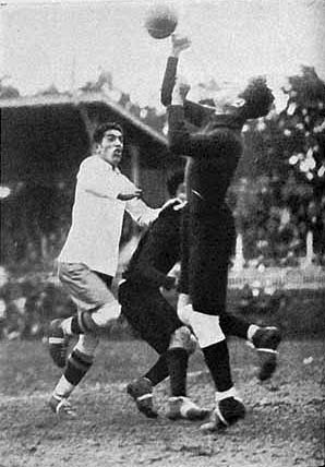 Scene of the Chile v Mexico match.